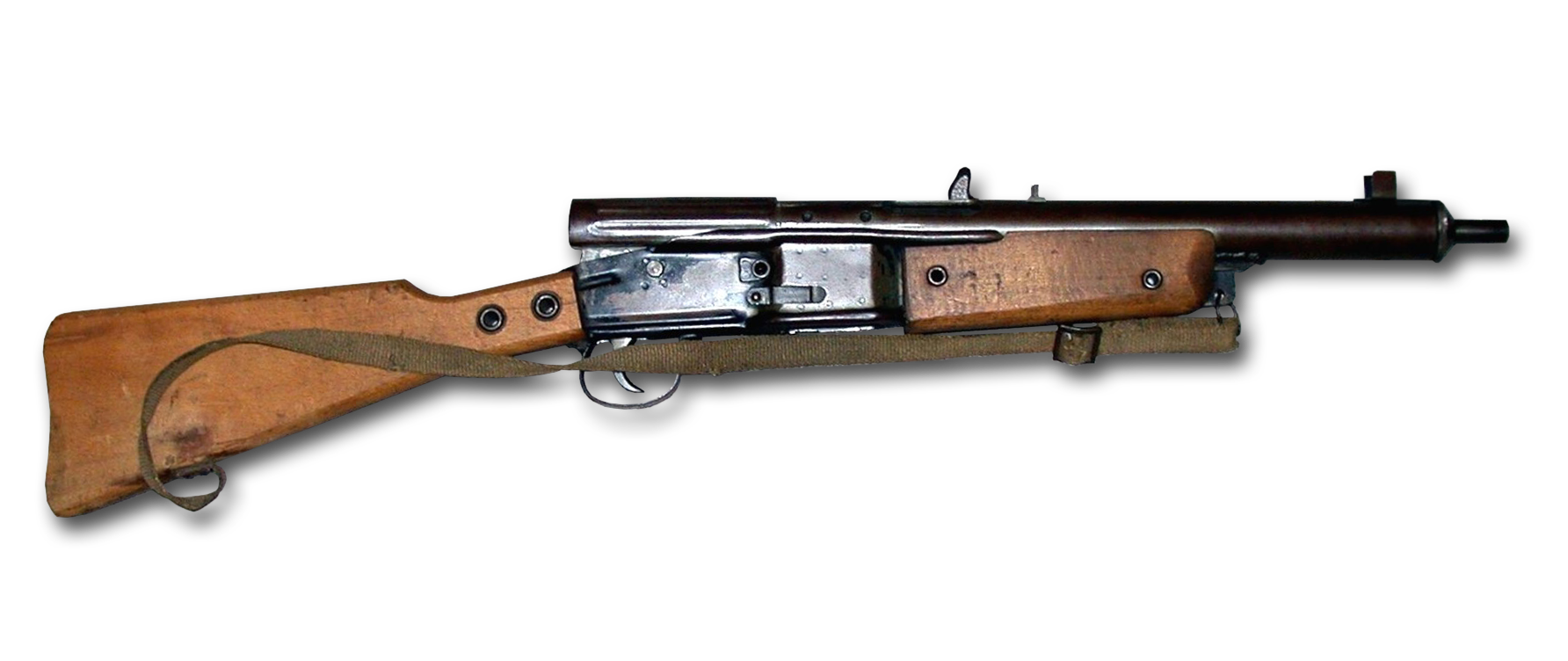 German Volkssturm-Rifle VG 1-5